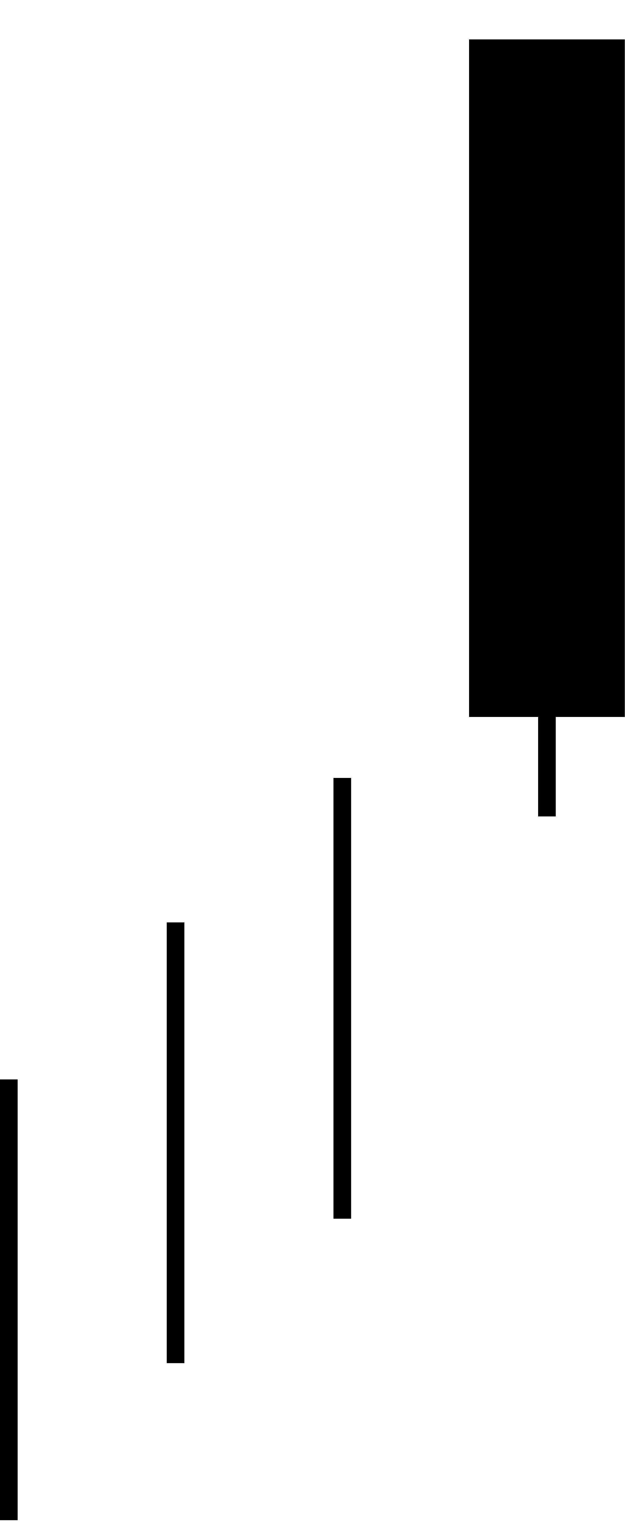 Bearish belt hold